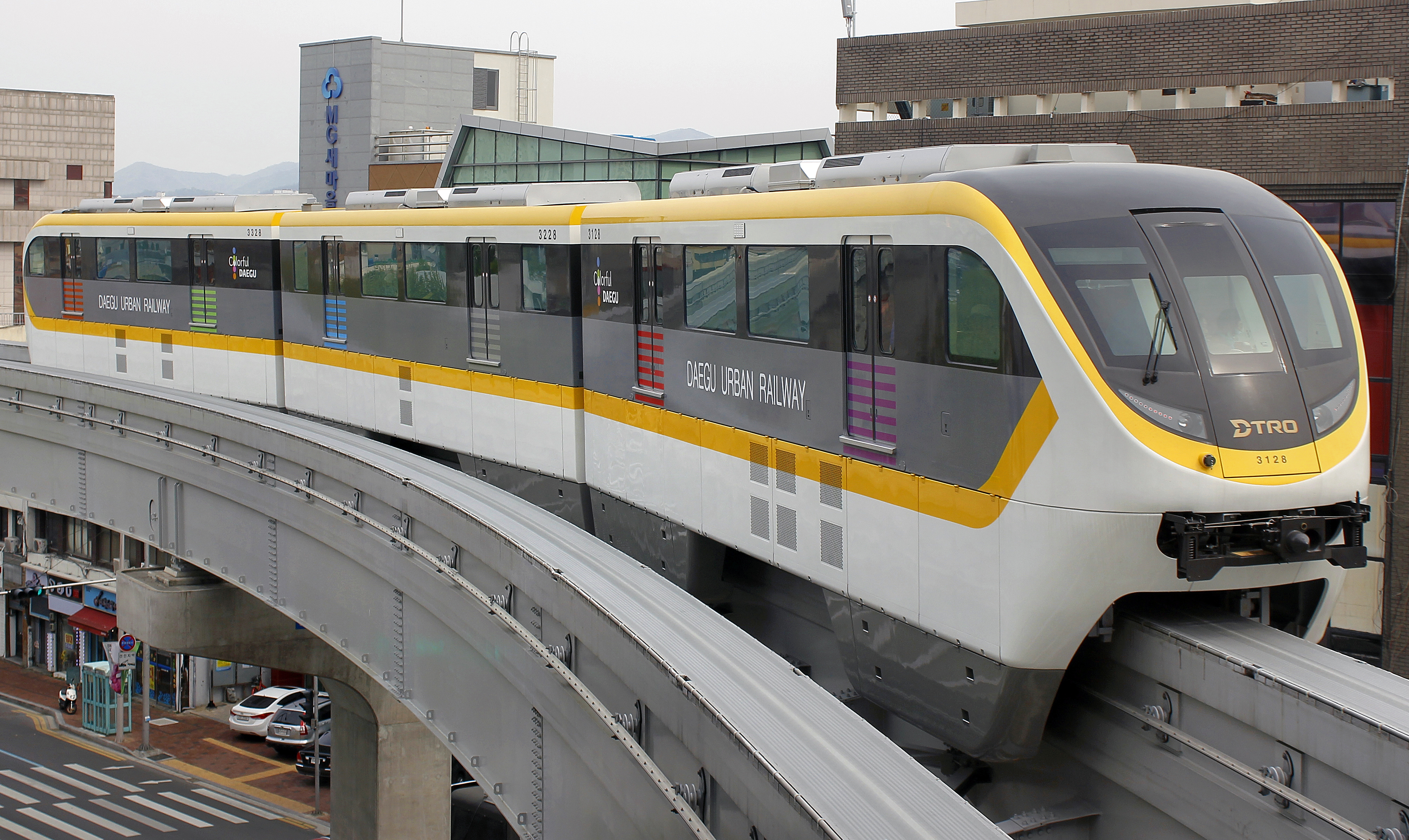 DTRO 3000 Series EMU 2nd Batch